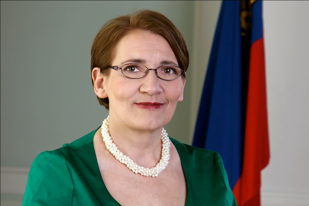 Renate Müssner is a former member of the government of the principality of Liechtenstein (2005–2013).